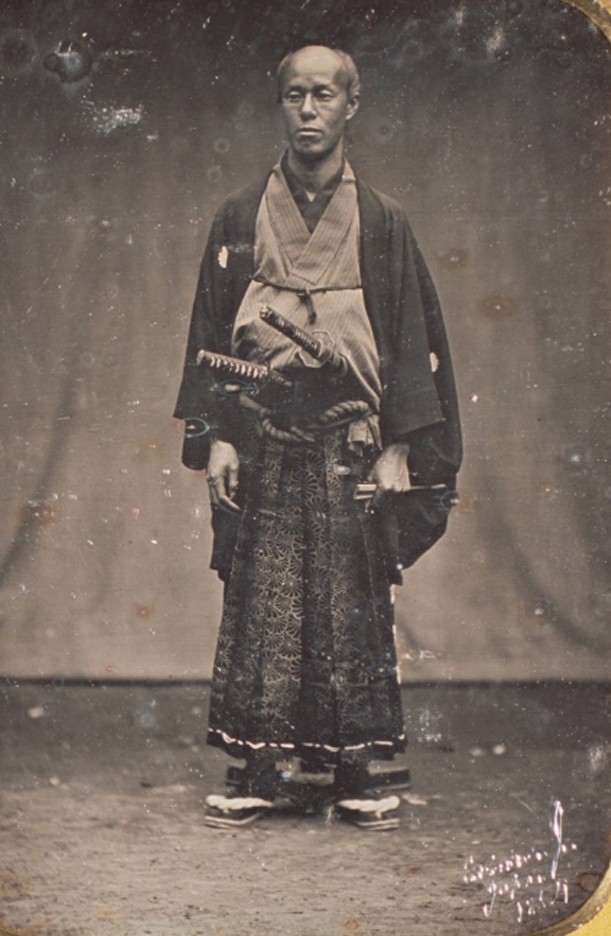 The 1854 Portrait of Tanaka Mitsuyoshi, which is designated by Japanese authorities as an Important Cultural Property as it was the oldest photograph of a Japanese person to be taken in Japan. It was Photographed when Matthew Perry visited Japan for the second time.